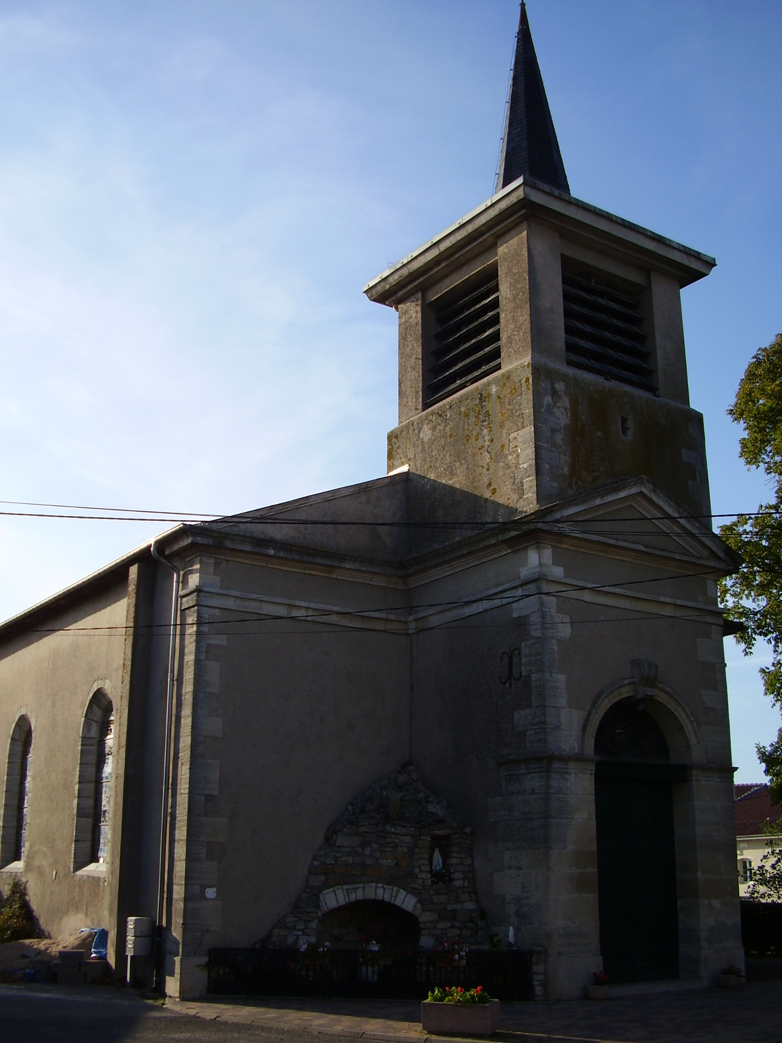 Église de la ville de Lucy (57590), France. Church of the city of Lucy (57590), France.